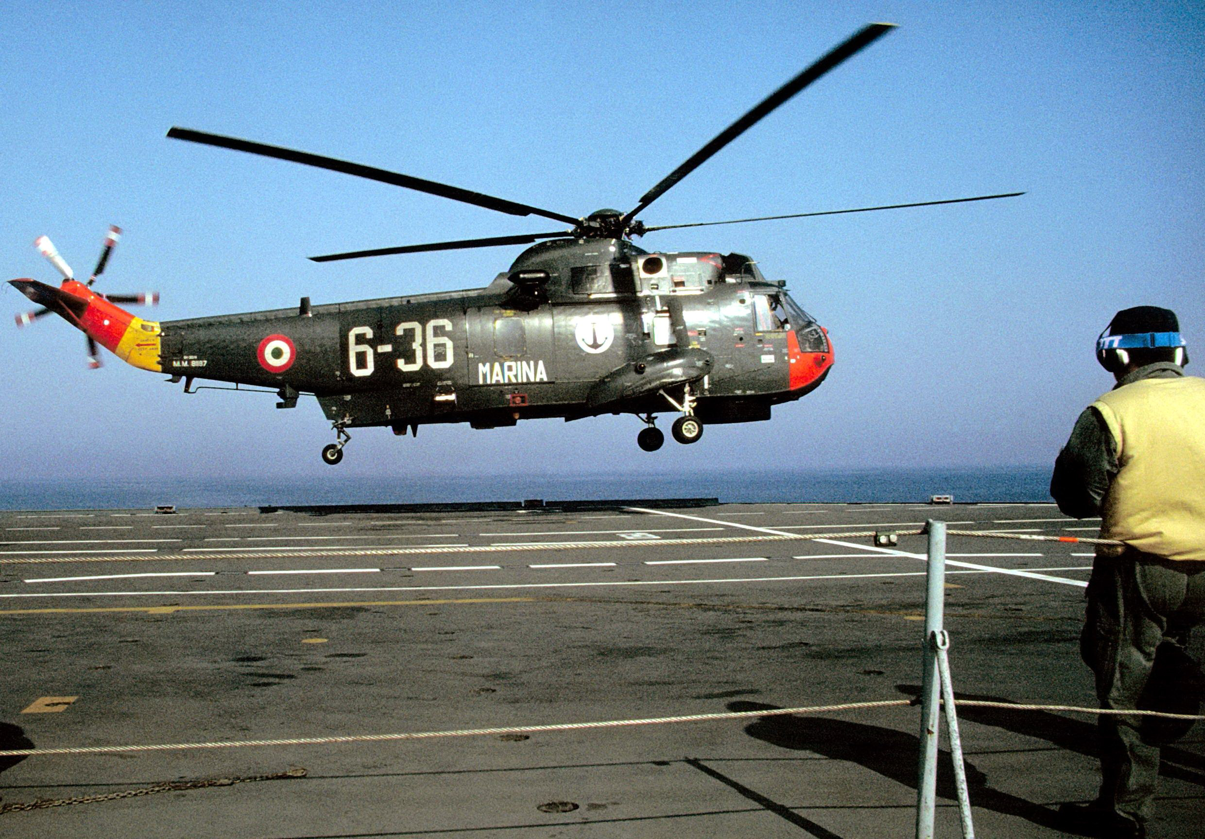 DRAGON HAMMER `92 An SH-3 Sea King helicopter of the Italian navy prepares to touch down on the Italian aircraft carrier GUISEPPE GARIBALDI (C-551) during the joint exercise Dragon Hammer '92.